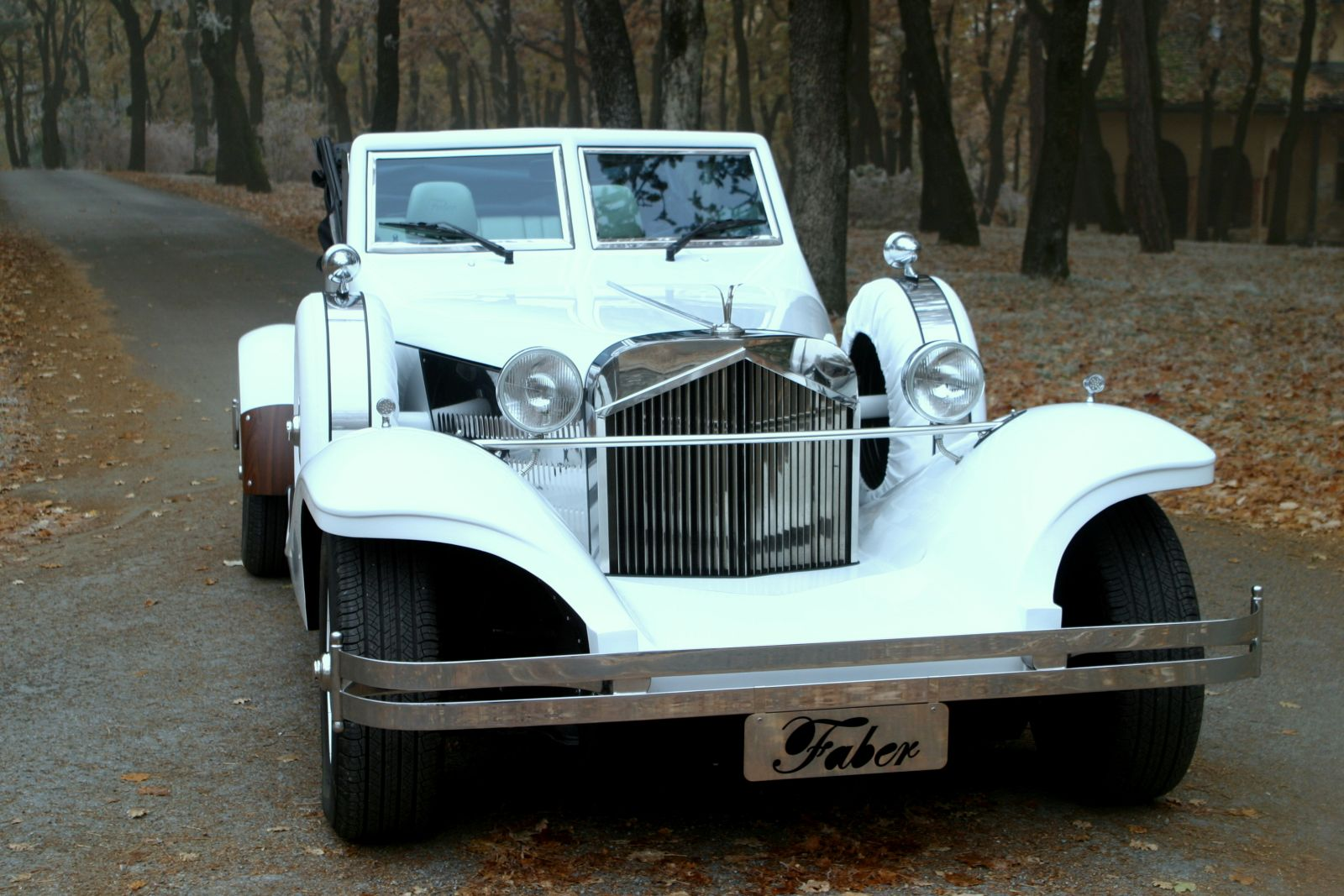 Cars